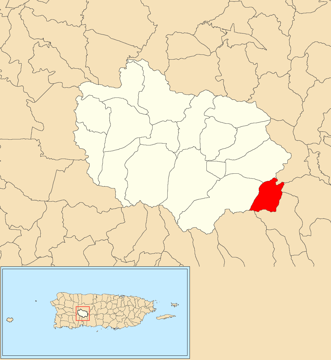 Portugués, Adjuntas, Puerto Rico locator map